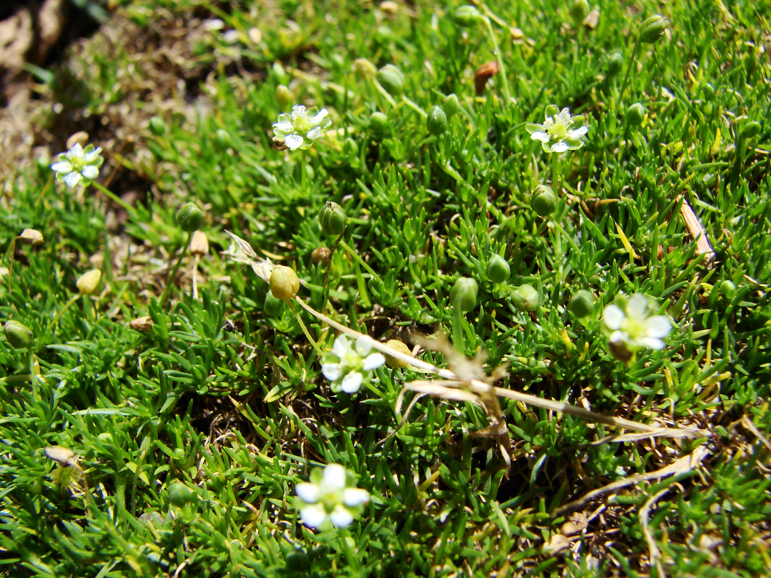 Picture taken in the university botanical garden of Wrocław (Poland): Sagina subulata (Sw.) C. Presl